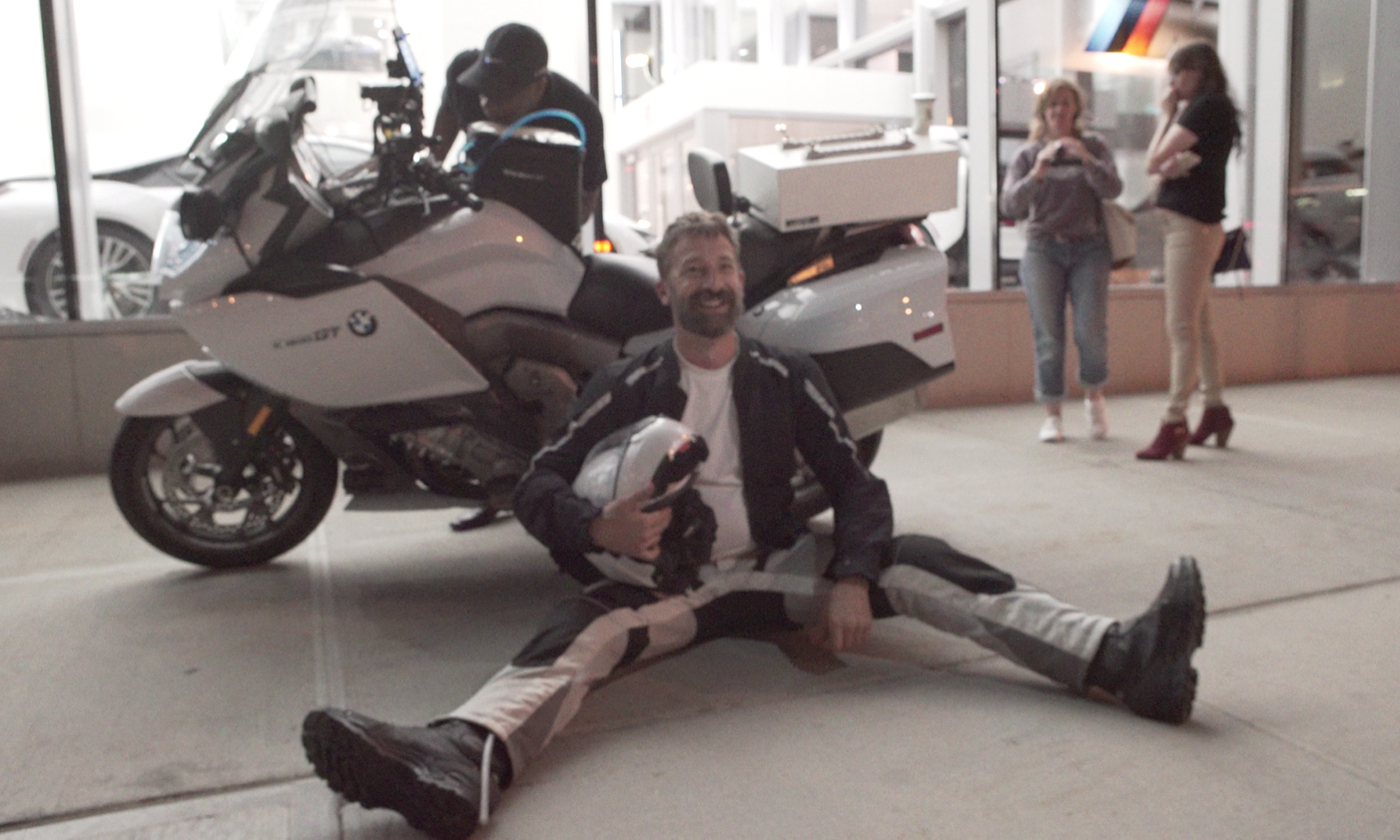 Carl J Reese and his motorbike at the Manhattan BMW dealership. NY State Notary Julian Hill is verifying the odometer and engine number.